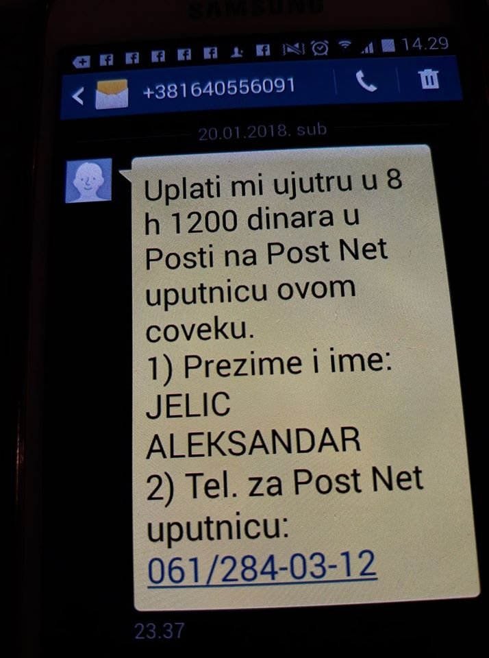 Text message fraud, Serbia.